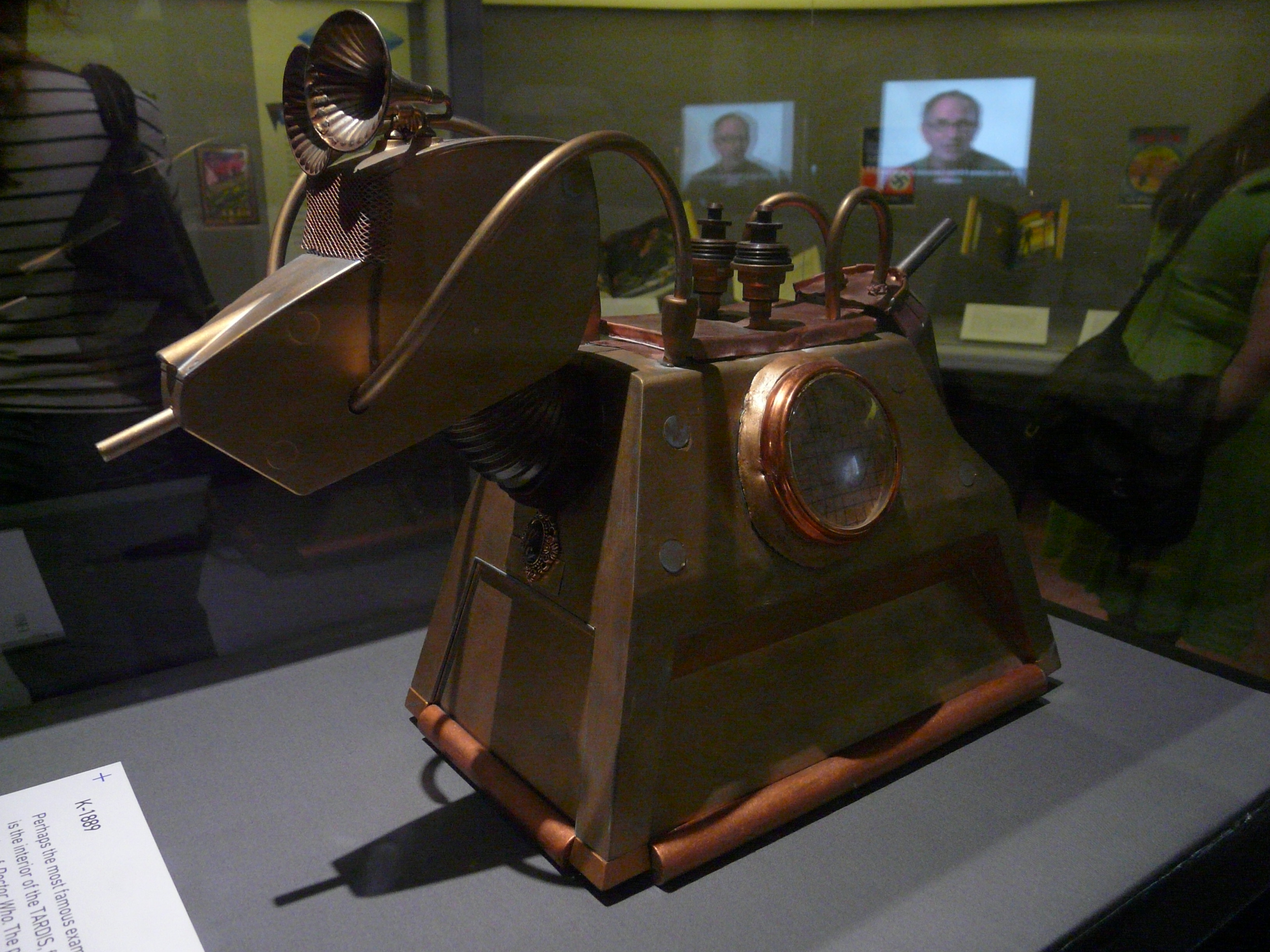 By James Richardson-Brown at